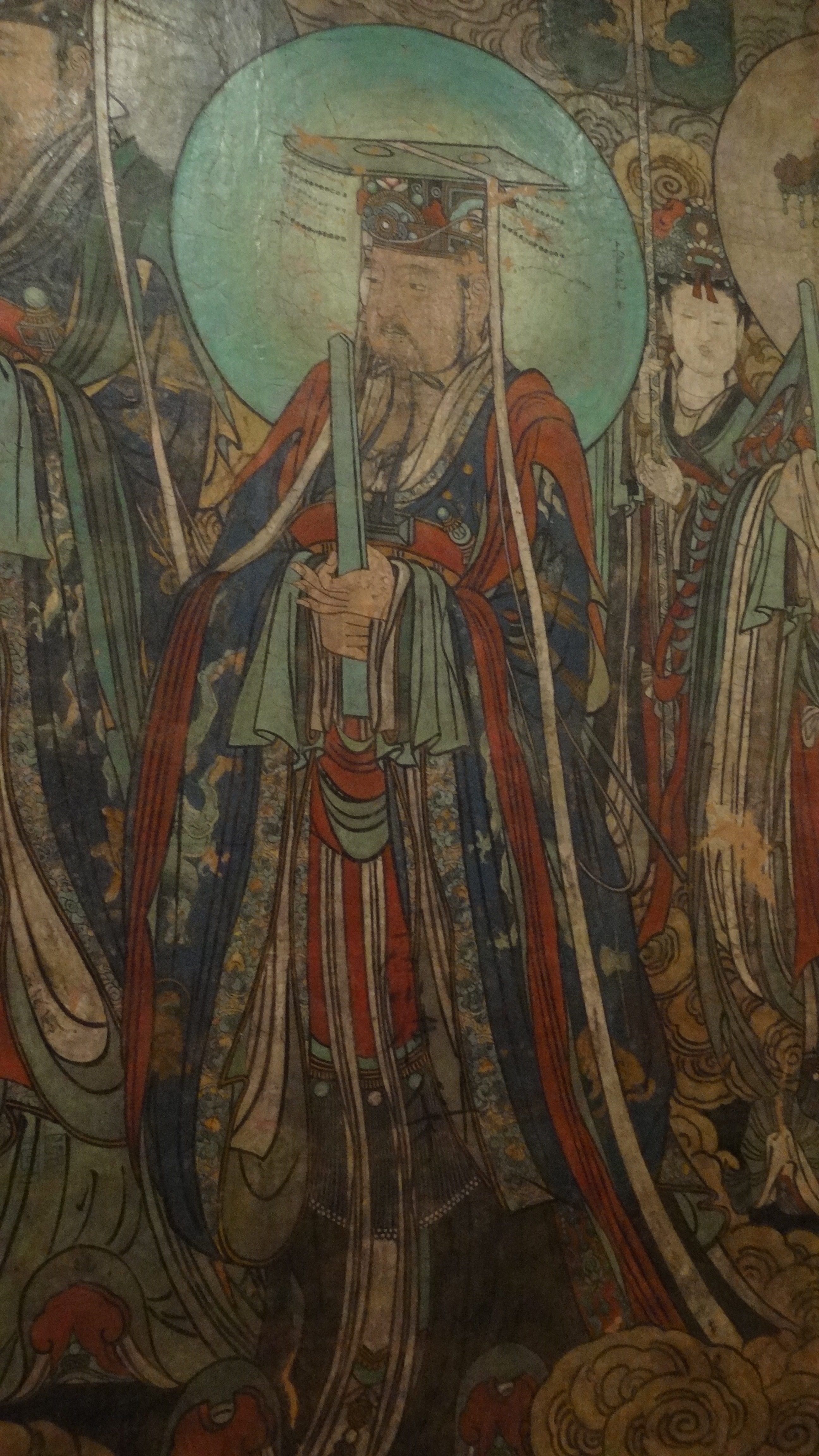 painted mural panel